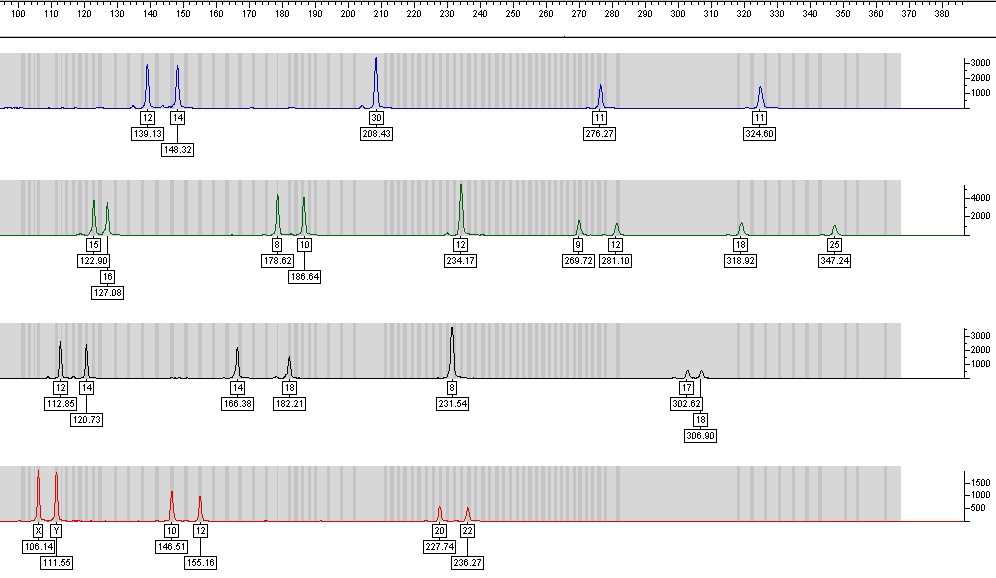 Paternity test - a single genetic profile based on STR analysis